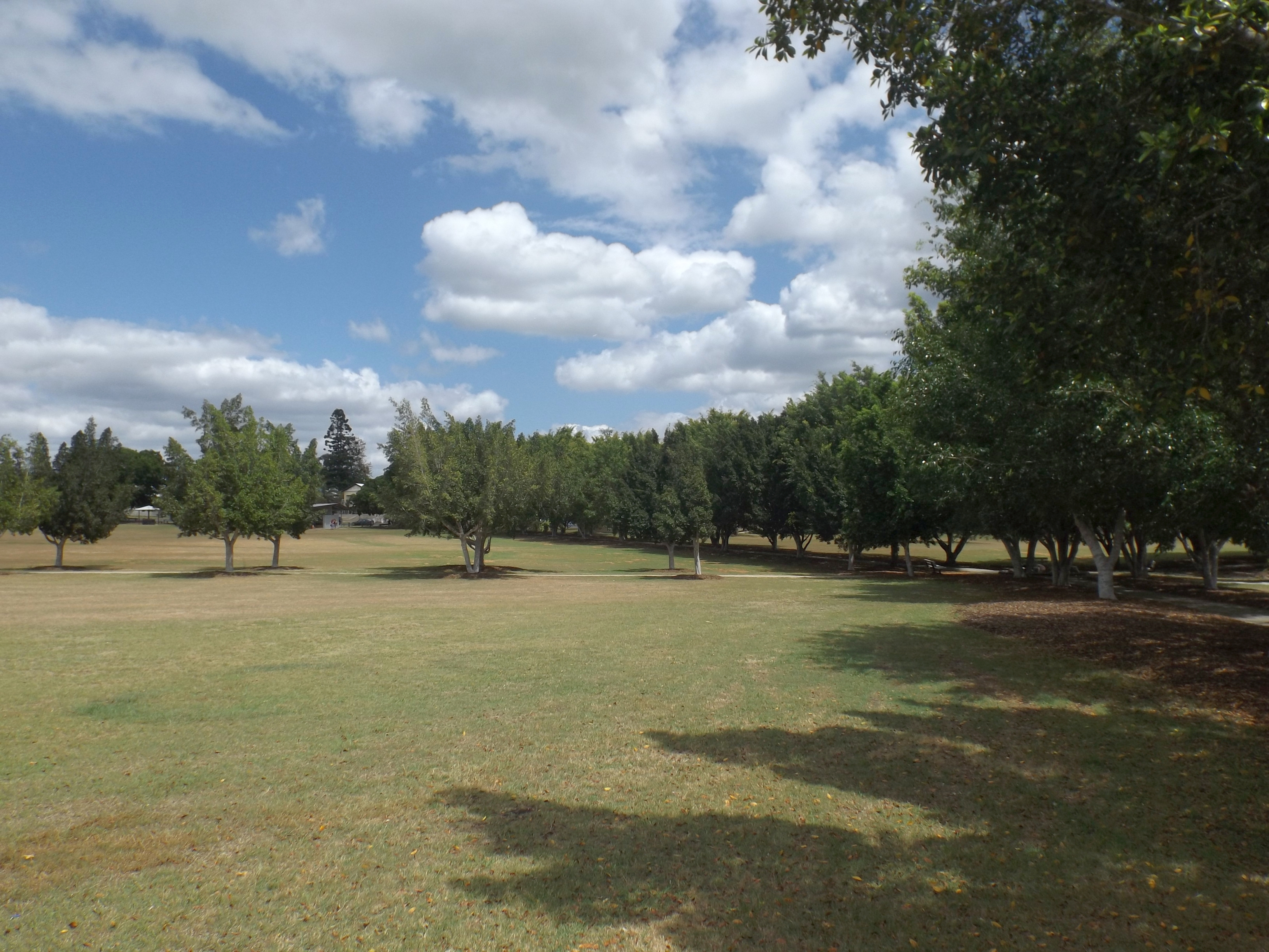 Photo of Cameron Park at Booval, Ipswich, Queensland, Australia.